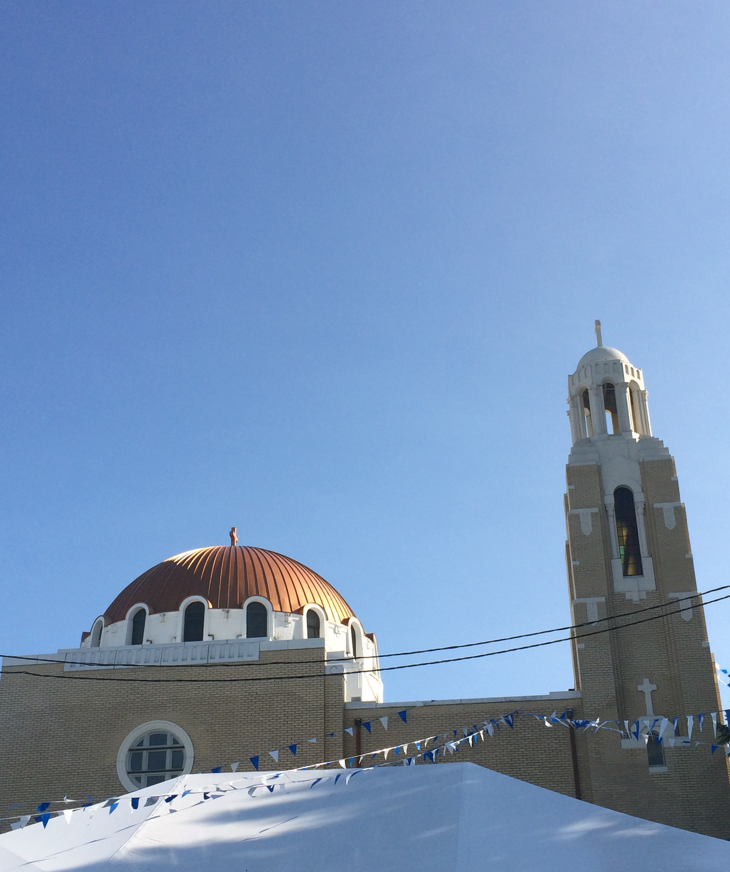 Holy Trinity Greek Orthodox Church in Wilmington, Delaware, during the 2019 Wilmington Greek Festival